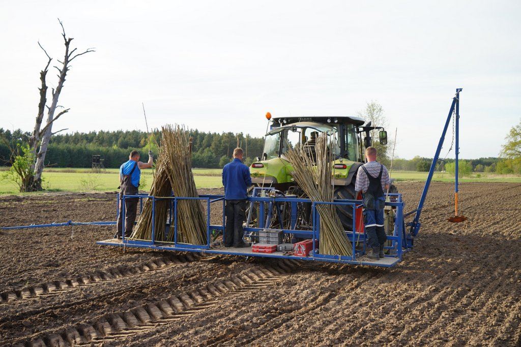 Planting a poplar SRC plantation with "Step-Planter" machine of Lignovis GmbH (Germany). The machine cuts the poplar rods are into 20cm pieces and pushes them upright into the soil. Video link